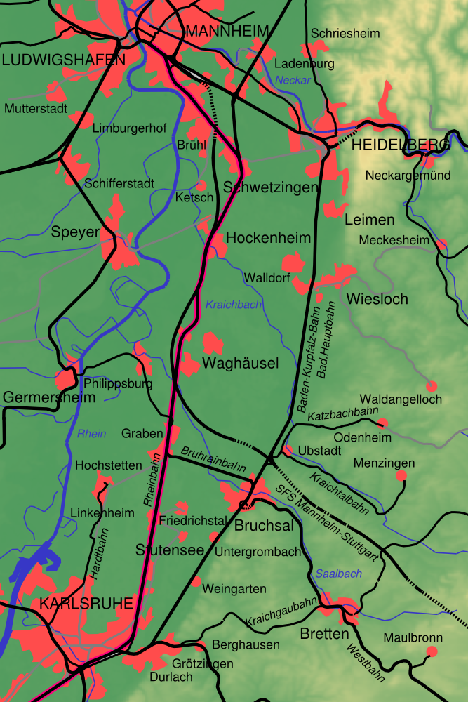 map of Baden Rhein railway. please see User:Kjunix/BahnNWB for comments.